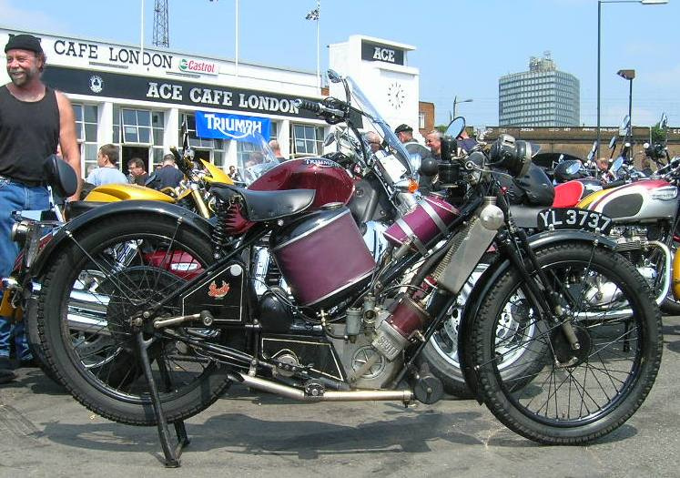 taken at the Ace Cafe 2007